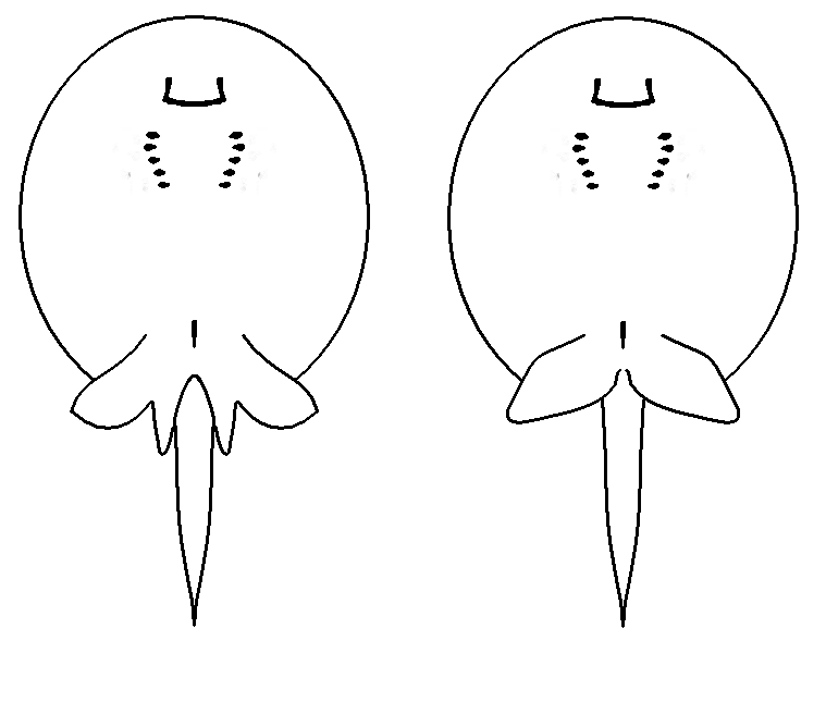 Potamotrygon hystrix, male (left) and female (right)